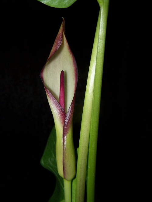 Arum hygrophilum